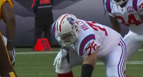 Sebastian Vollmer in a game against the Denver Broncos